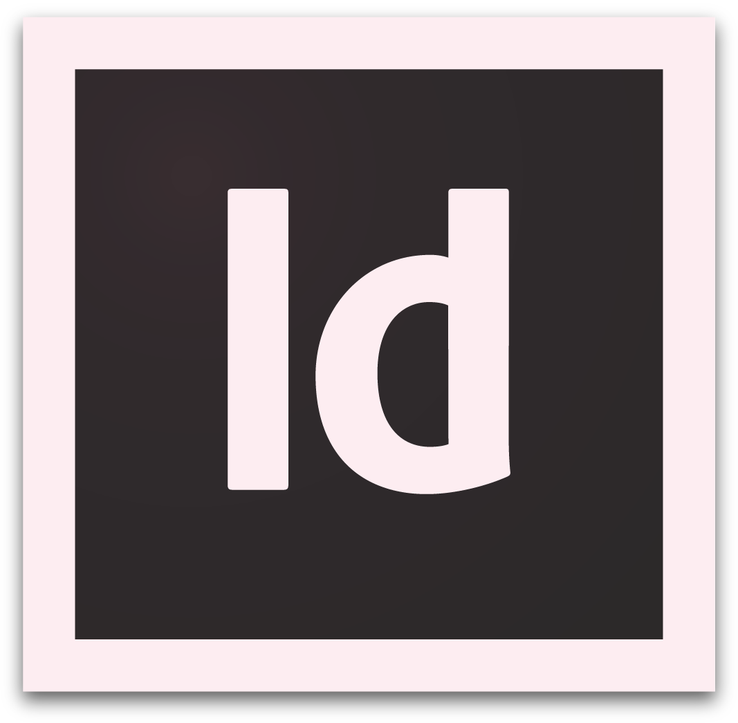 Indesign CS6 Server